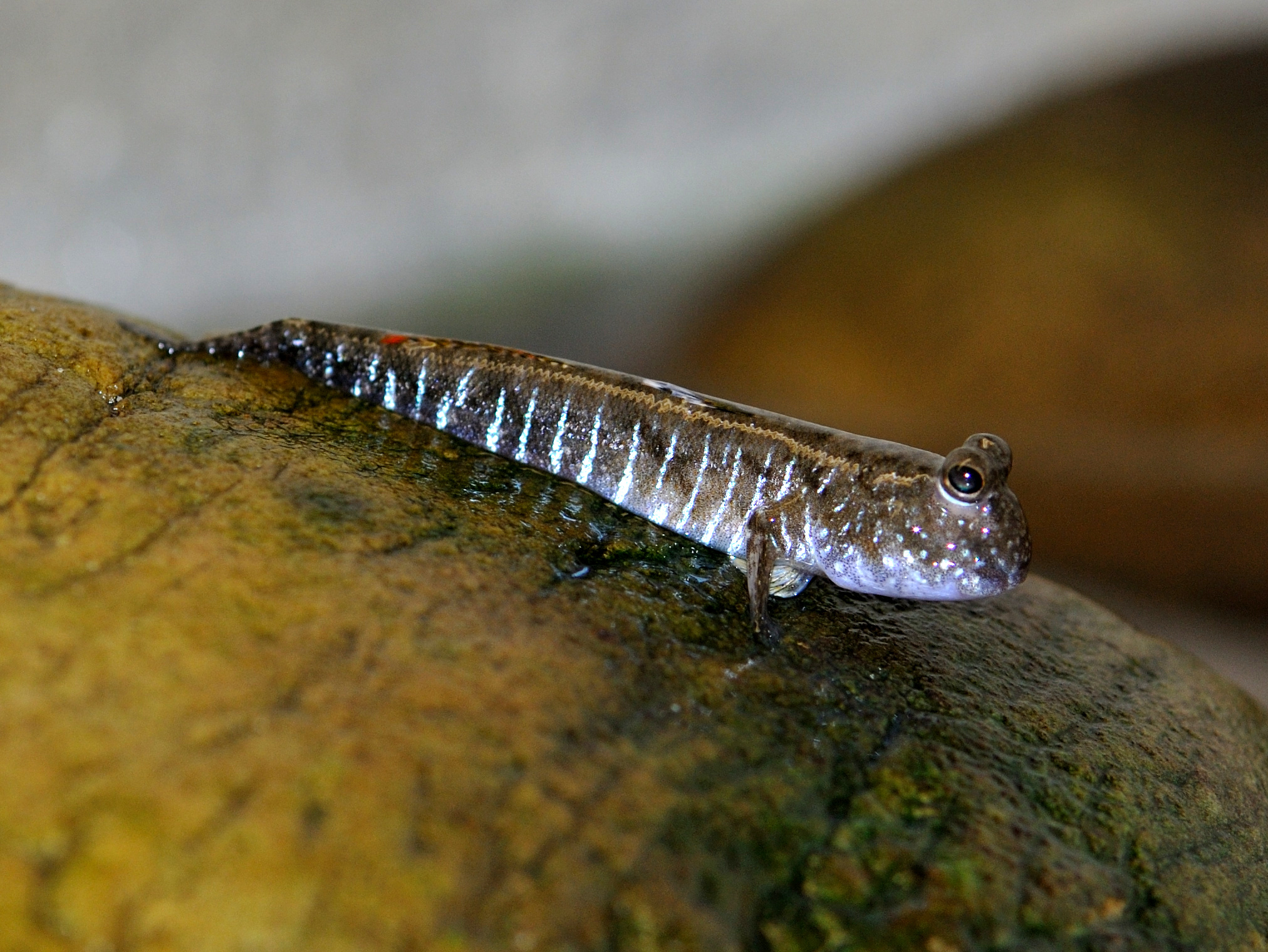 Pearse's Mudskipper (Periophthalmus novemradiatus) in the Frankfurt Zoo.